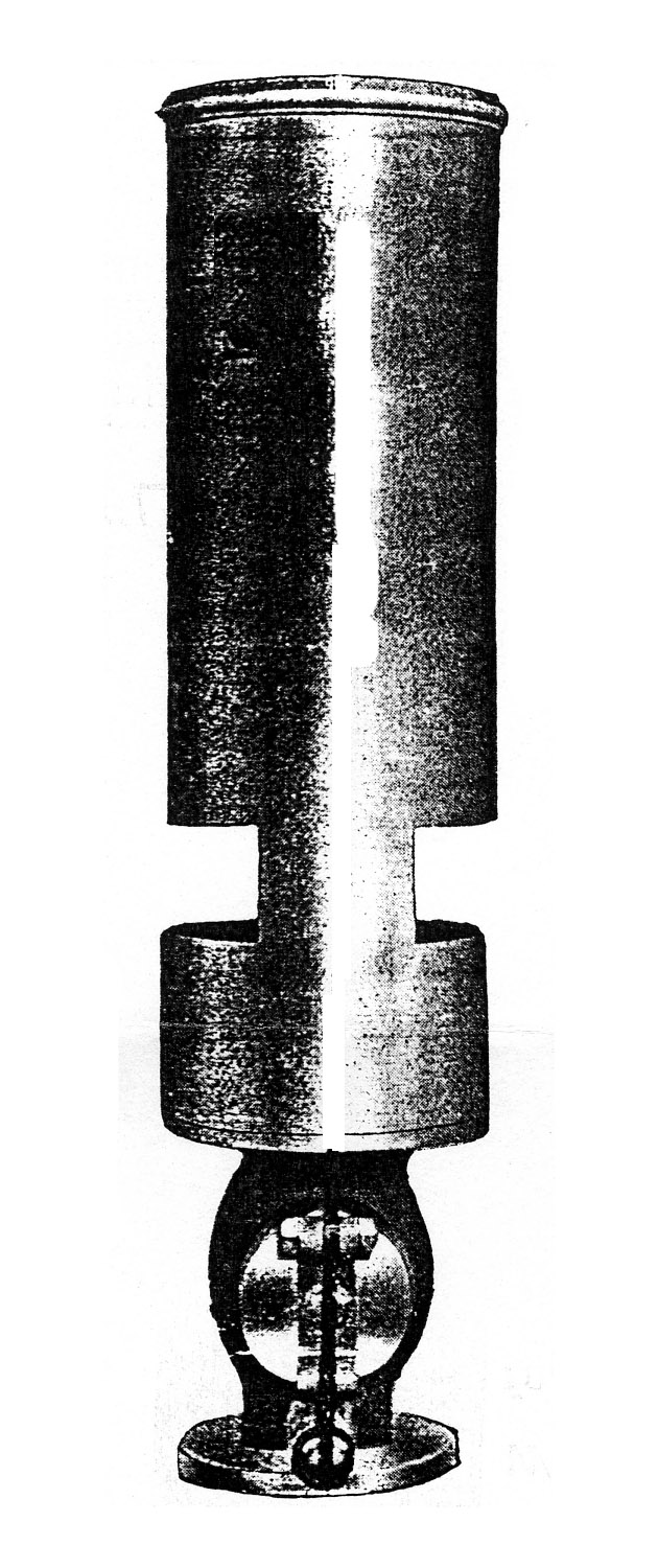 From a 1912 ad